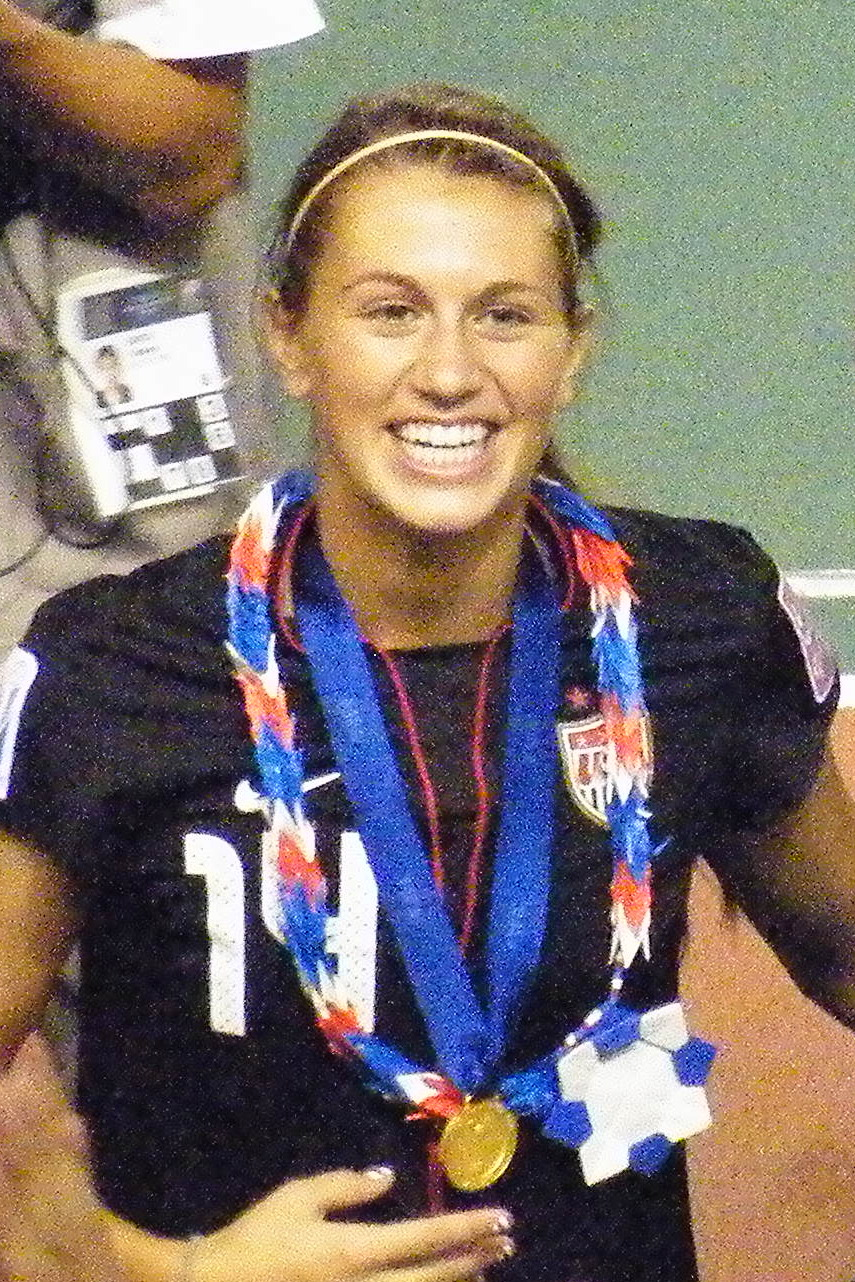 FIFA U-20 Women's World Cup 2012 Awards Ceremony; 14—Mandy Laddish